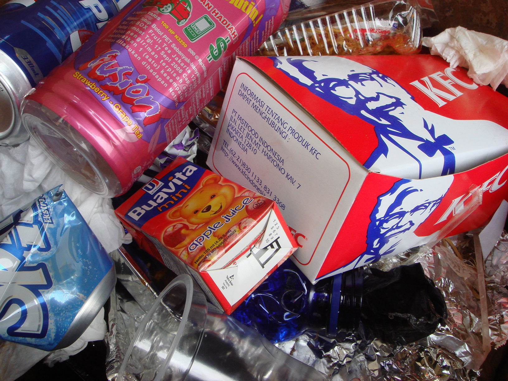 Close up of garbage in a garbage bag. Taken by Yuyudevil on August 11 2006.